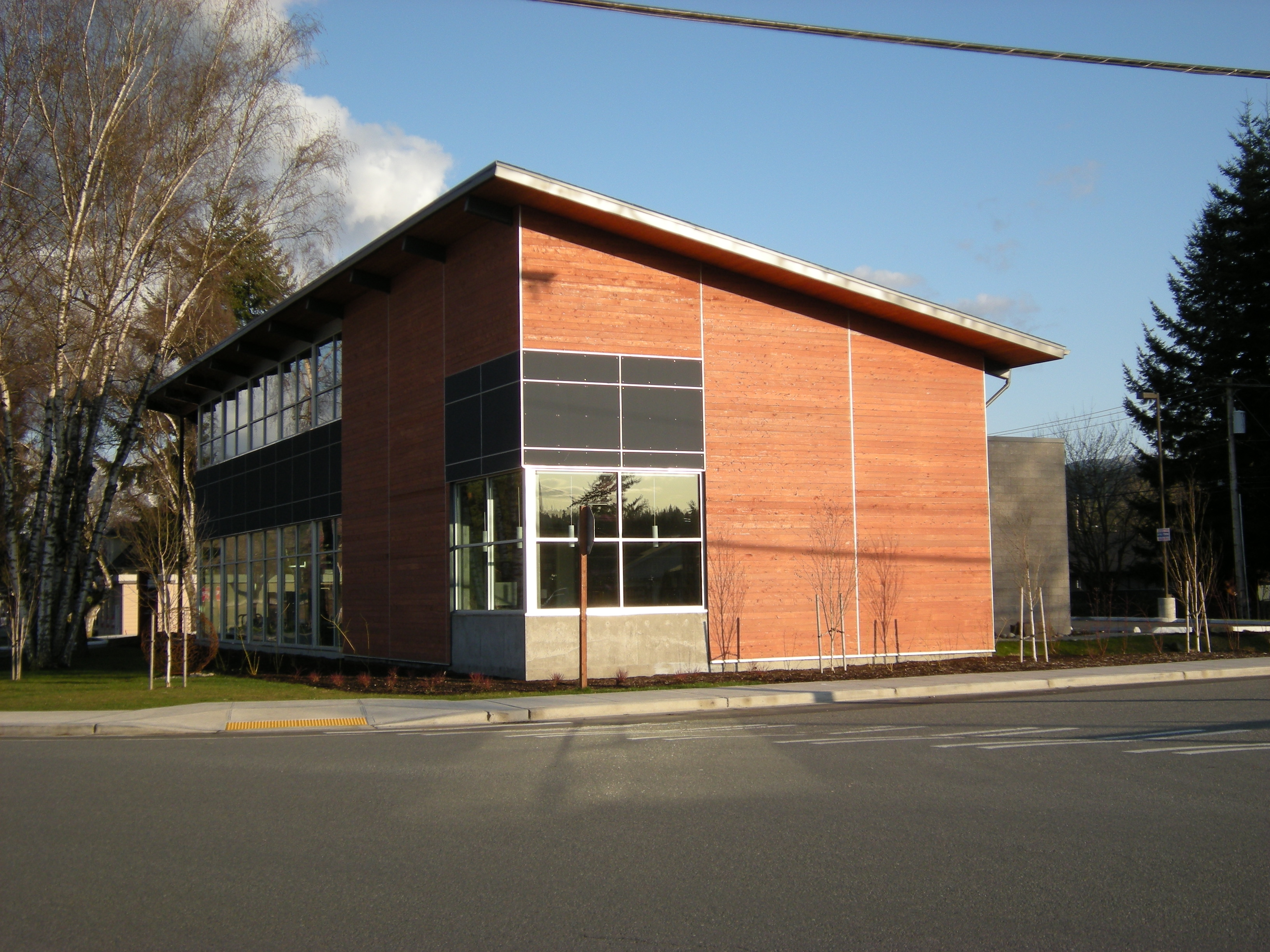 Public library, Fall City, Washington. Part of the King County Library System. Designed by Miller Hull architects.